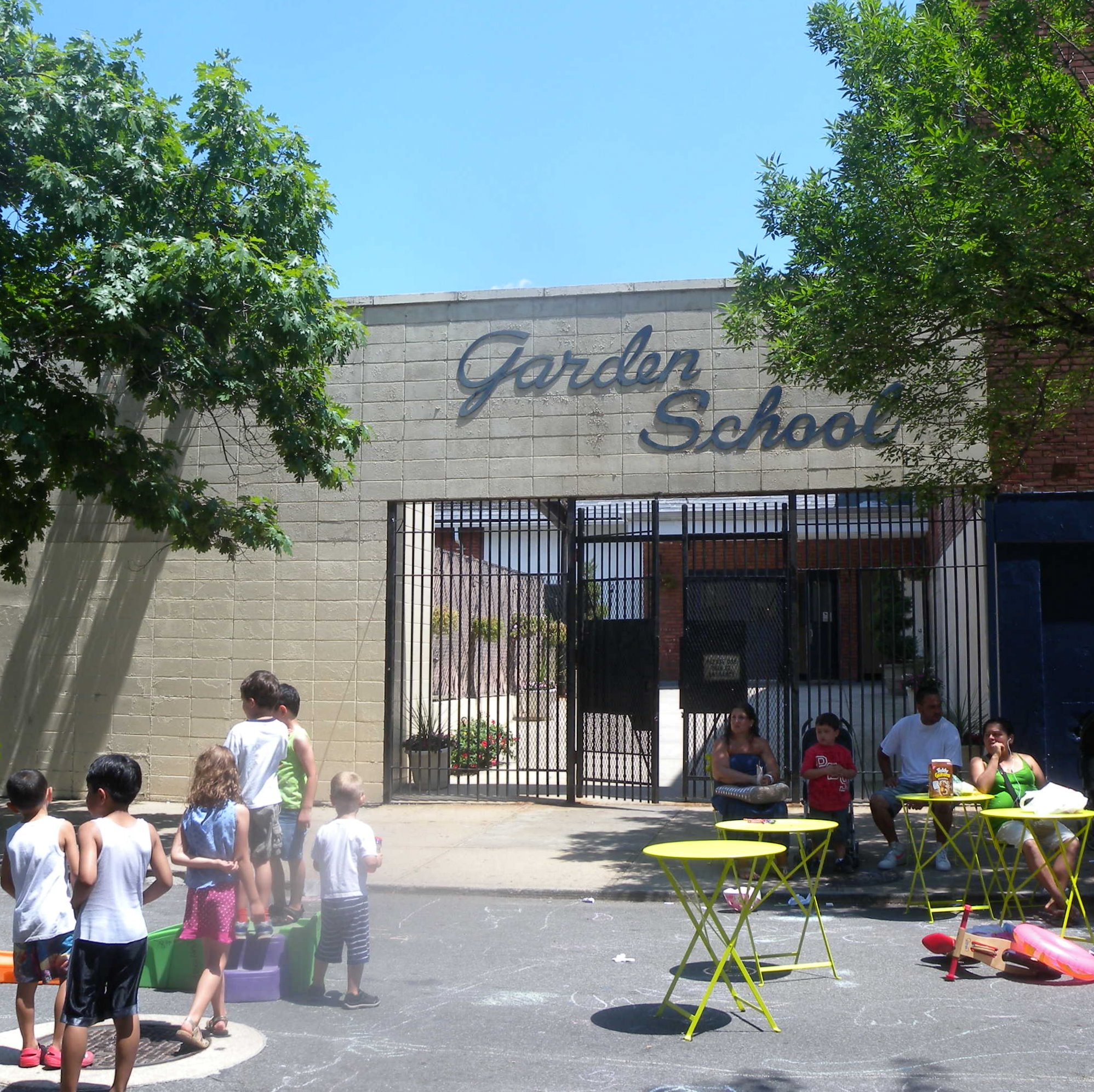 Looking east across 78th St at Garden School on a sunny midday. Geotagged only by Picasa.